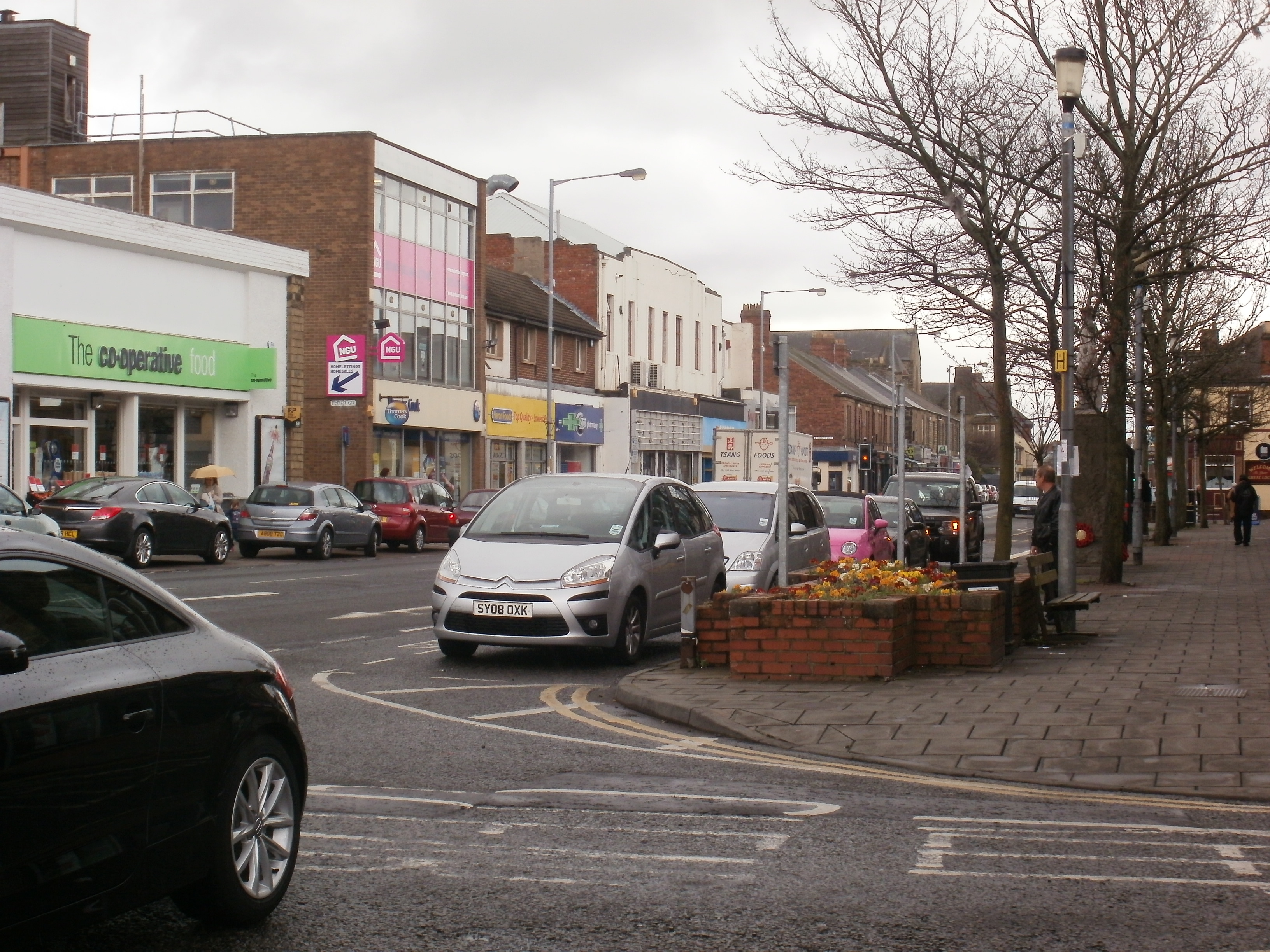 Durham Road, Low Fell at April 2012. Durham Road has developed over a century tro become the thriving hub of economic and social life in Low Fell.